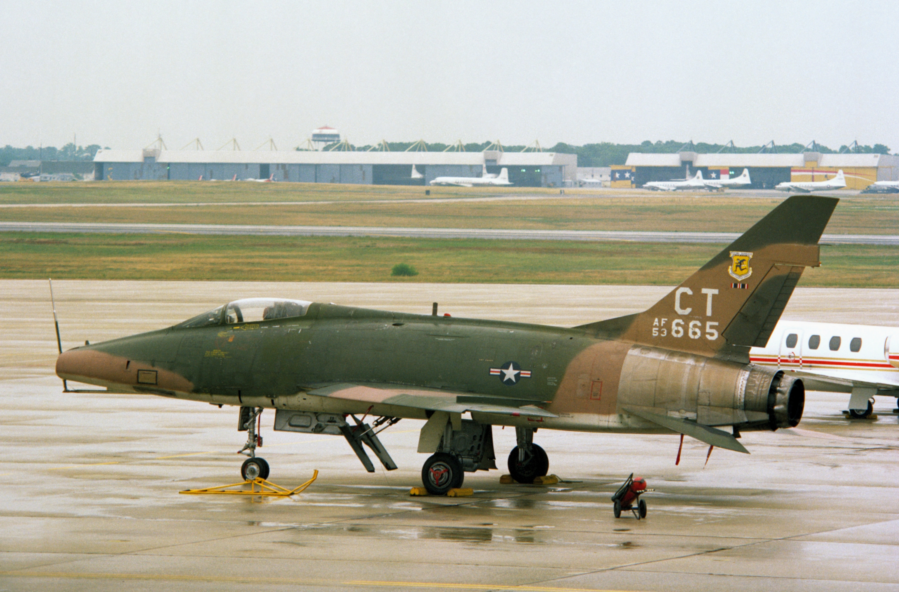 A U.S. Air Force North American F-100D-25-NA Super Sabre (s/n 55-3665) from the 118th Tactical Fighter Squadron Flying Yankees, 103rd Fighter Group, Connecticut Air National Guard, at Andrews Air Force Base, Maryland (USA), in 1976. The 118th TFS was based at Bradley International Airport in Windsor Locks, Connecticut (USA).